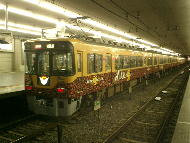 Keihan-8000 photography place Keihan-Kyobashi Station